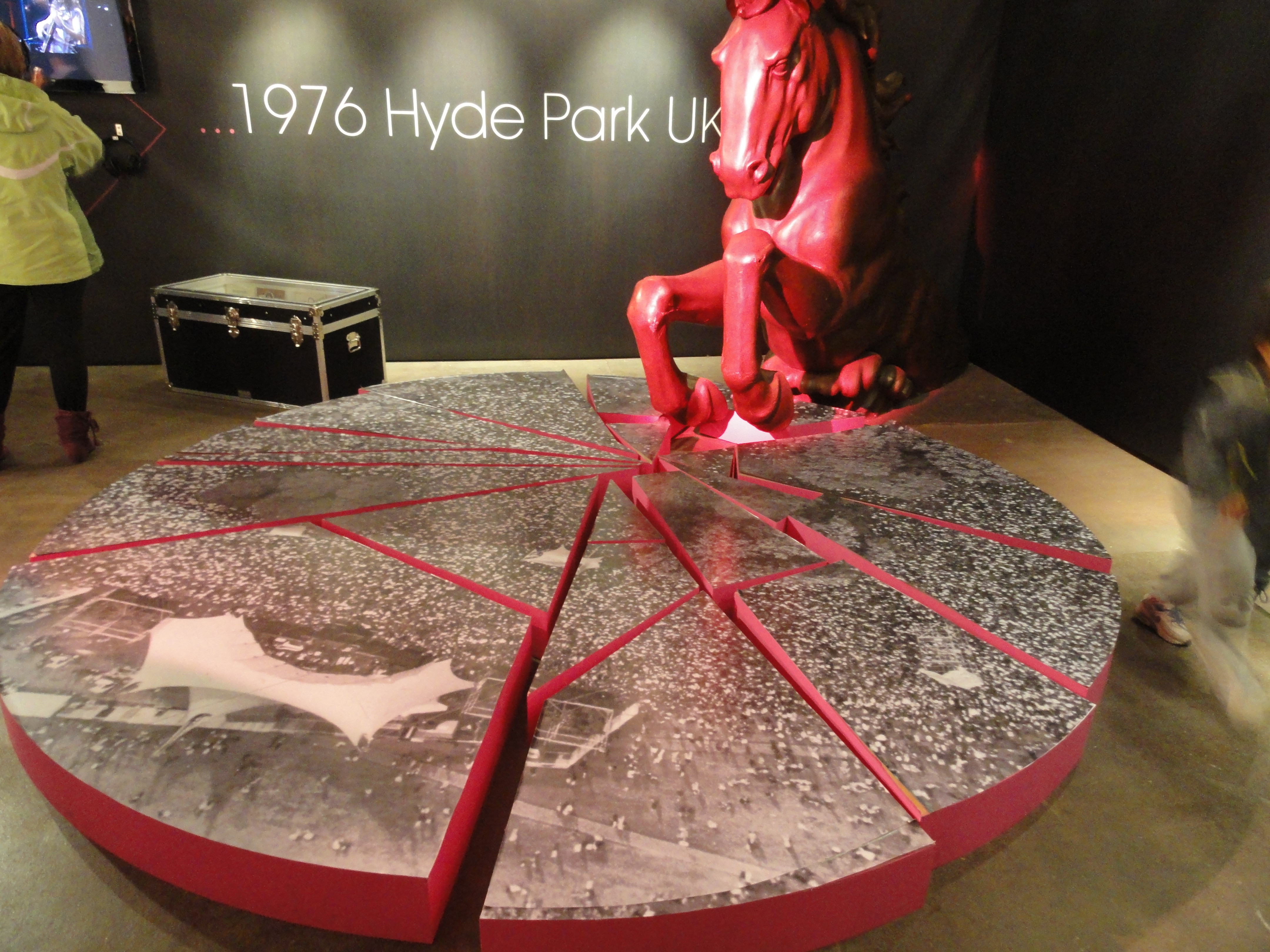 Commemorating 1976 free Hyde Park gig